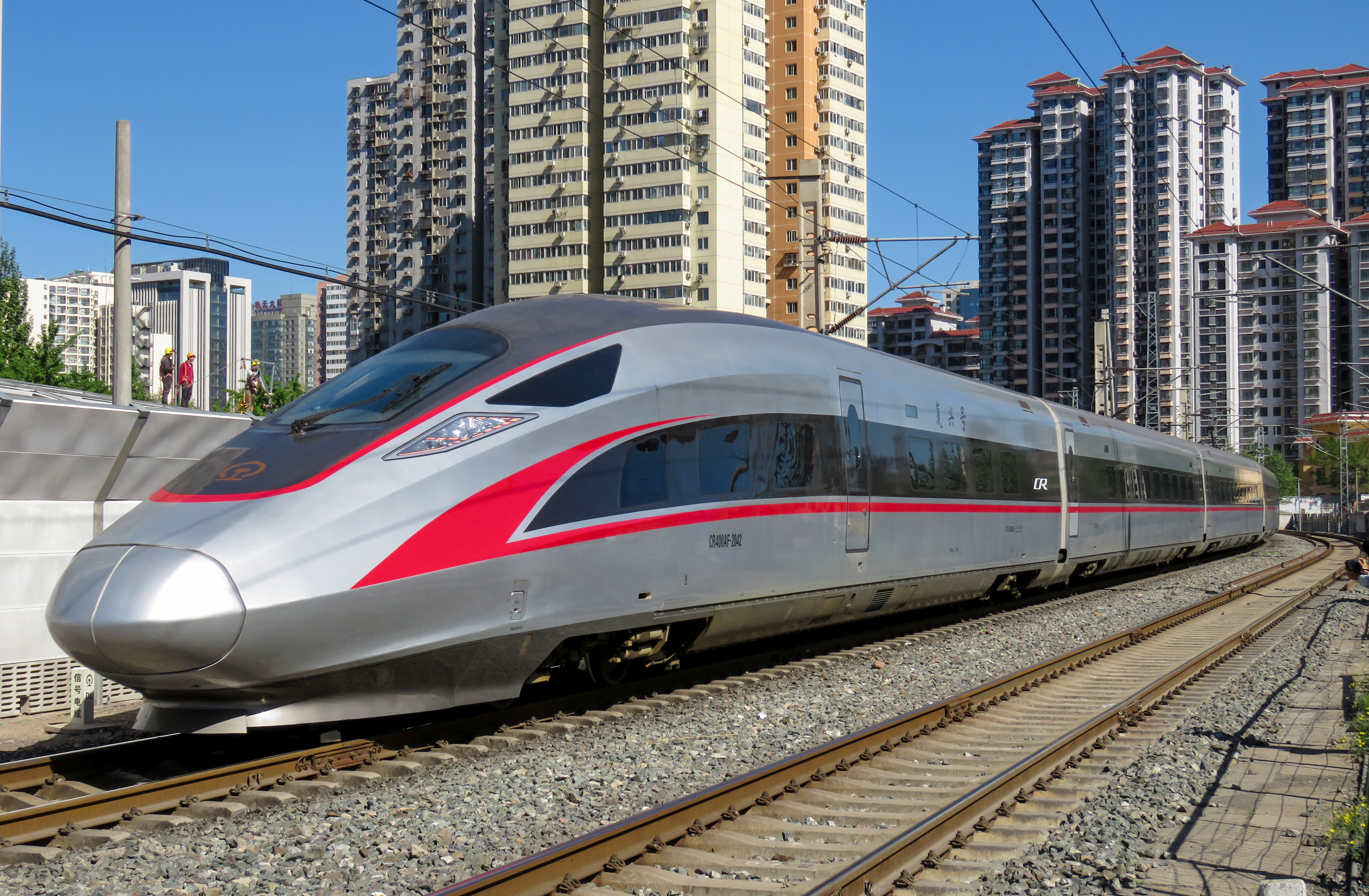 0G80 from depot - later G79 to Futian. The new road tunnel would be finished soon, while this level crossing would be closed on 7 May 2018.